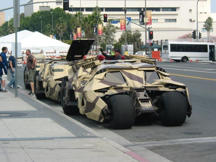 Image of the new three camouflaged Tumblers filming in the The Dark Knight Rises.